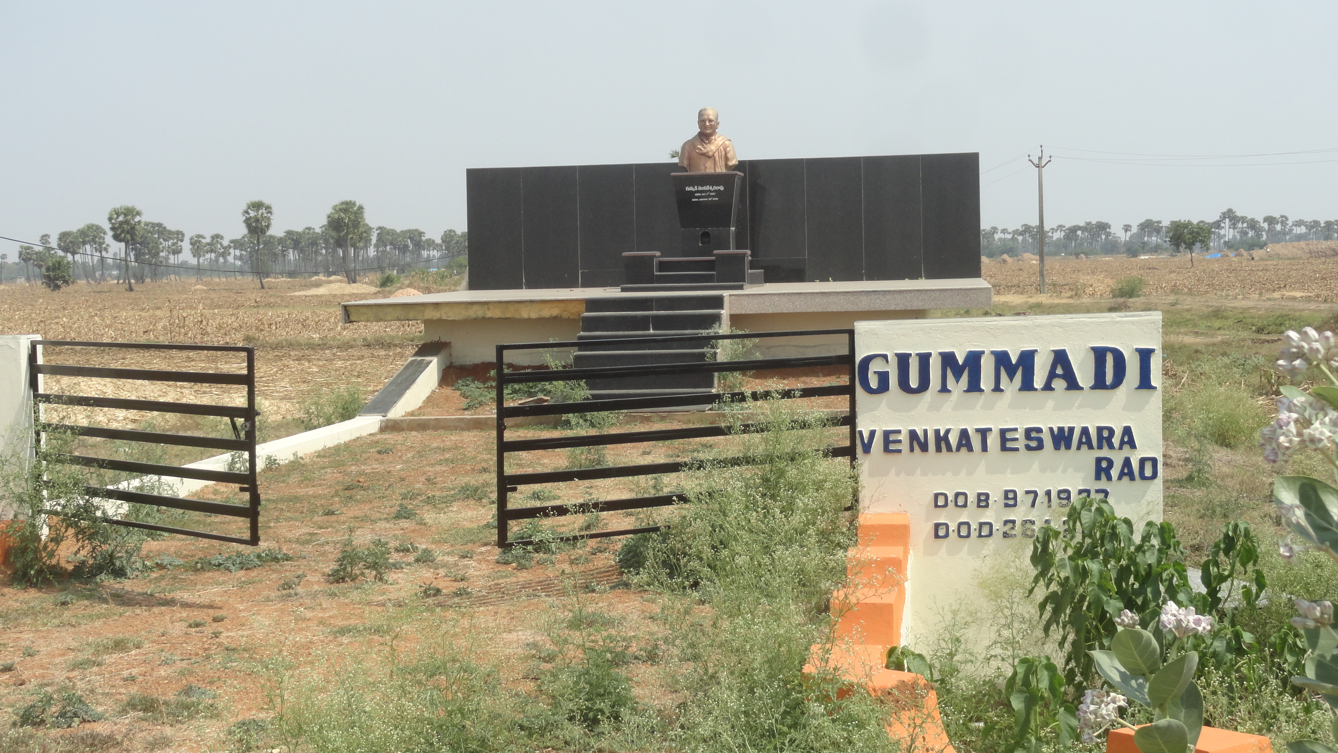 Village panchayat office Potharlanka, of Guntur dist.